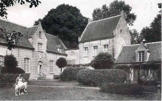 Foto genomen te Essen Essendonk 3 en ons bezorgd door Smout Rudi --- Postkaart Oude Pastorij met noordelijke vleugel, toren en poortgebouw. Vanaf 21 mei, en dit drie weken lang, vindt in het kader van Essen-850 nabij de Oude Pastorij het kunstenaarssymposium plaats. Elke dag van 10 tot 20u kan je er een kijkje gaan nemen, of nog beter, er fotootjes van maken en opladen op Essen in beeld. Door een bominslag op 22 oktober 1944 werd dit poortgebouw en een deel van de noordelijke vleugel vernield. In 1956 kwam de Oude Pastorij weer in handen van de gemeente. Ga eens een kijkje nemen, geef je ogen de kost, kijk naar de kunstwerken in wording, en goed om weten...in deze Oude Pastorij werden 2 pastoors vermoord! Foto familie Deckers --- Eigendom van Essen in Beeld (Stichting Heidebloempje, Heemkundige Kring, Cultuurraad).